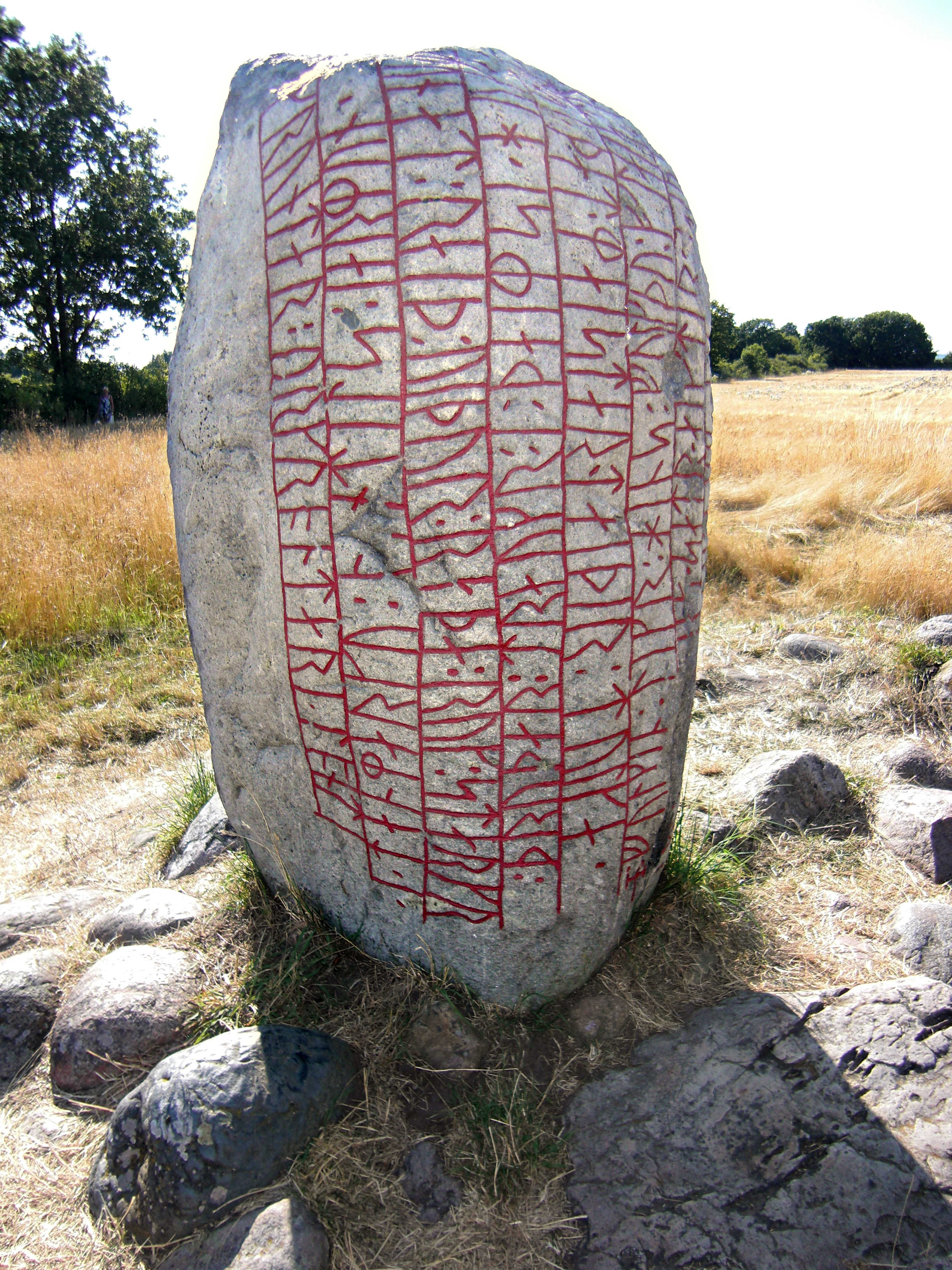 The Karlevi runestone (Öl 1, RAÄ No Vickleby 10:1) is the longest runic inscription on Öland. It is situated in Vickleby parish, Mörbylånga municipality, Öland, Kalamar county, Sweden.